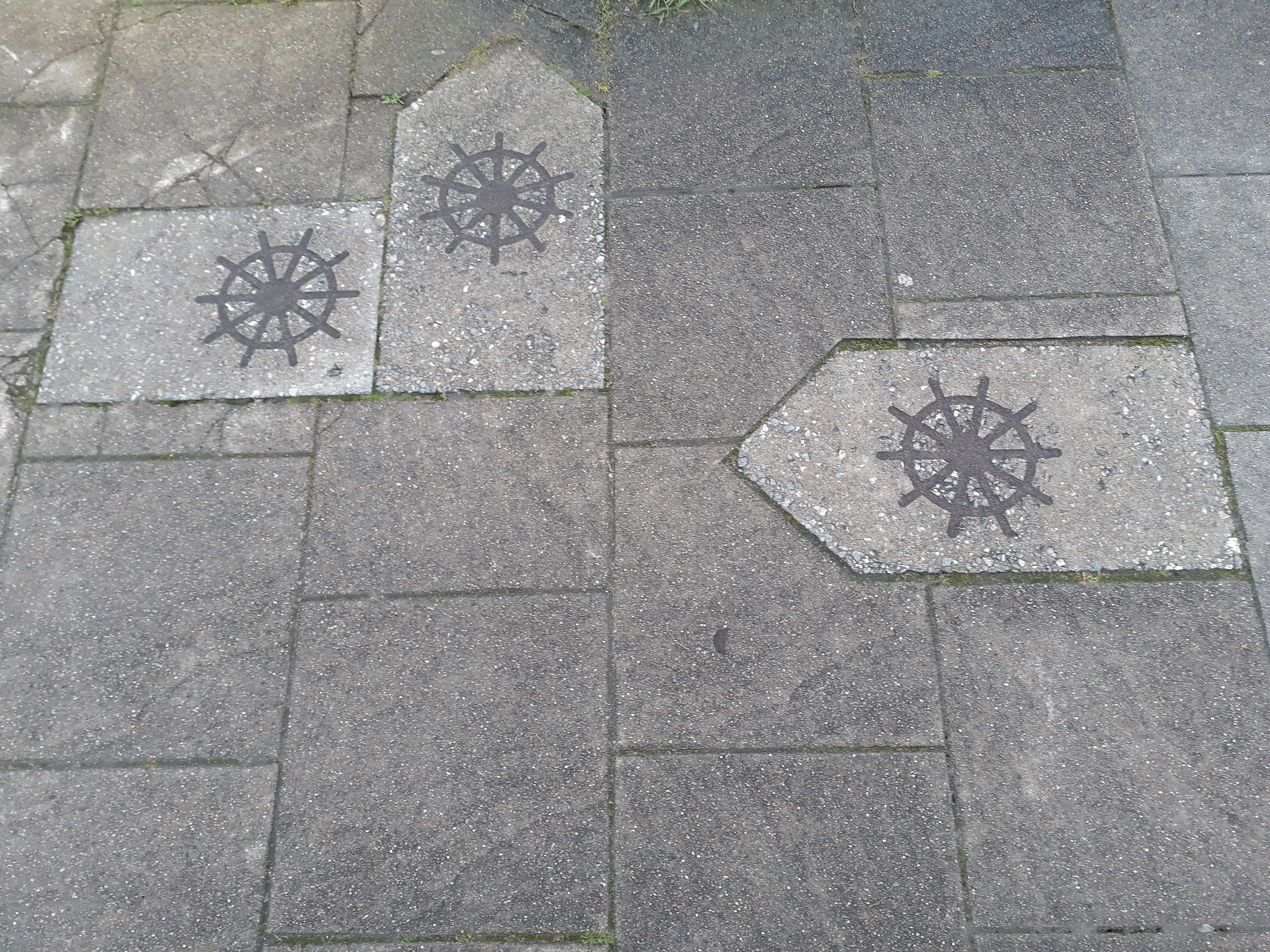 Signs on the walkway at Flensburg harbour, Germany